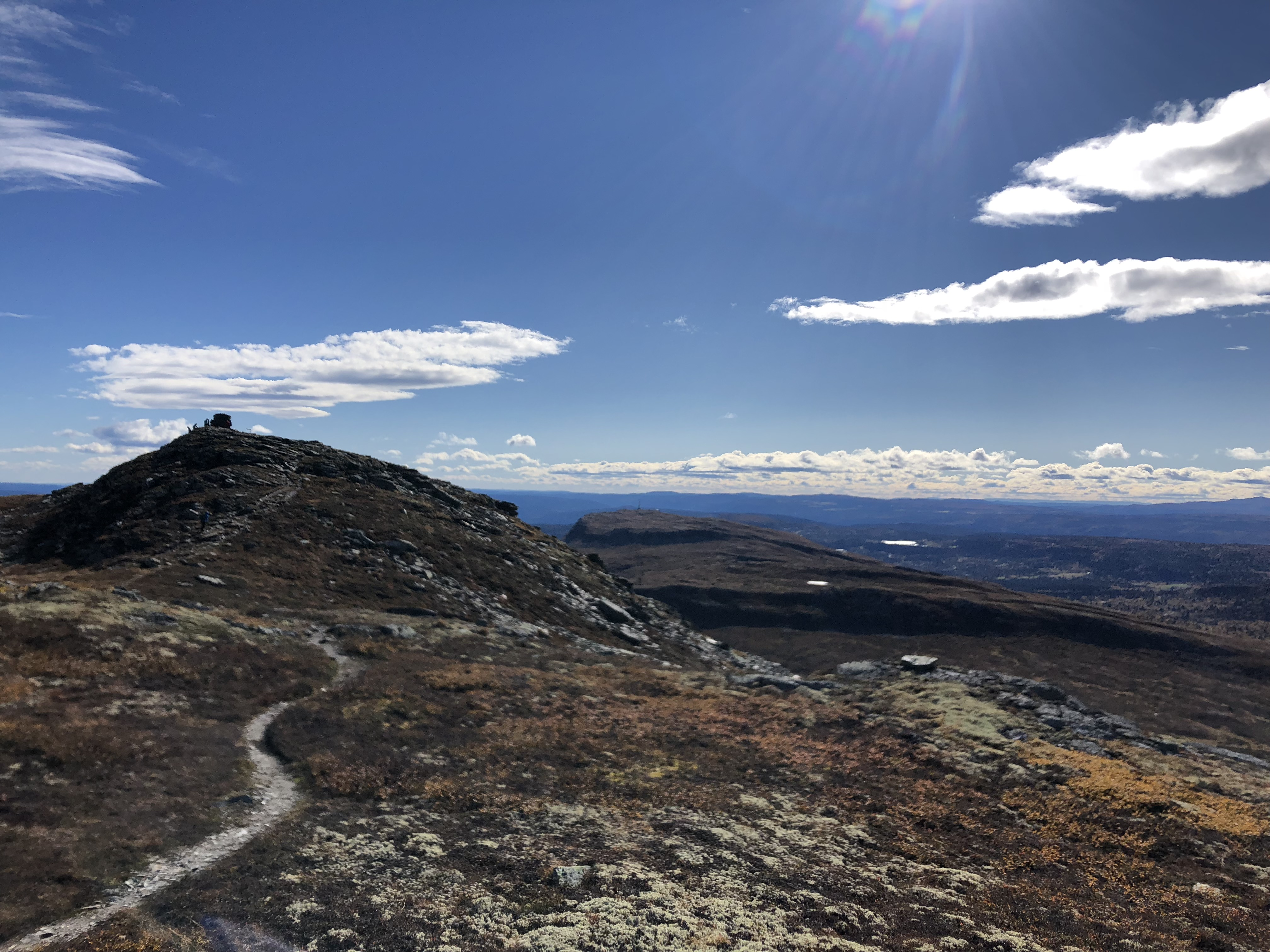 Southward panorama from the northernmost point of Gausdal municipality (Oppland, Norway). Mountain Prestkampen (1244 m) to the left, mountain Skeikampen to the right.